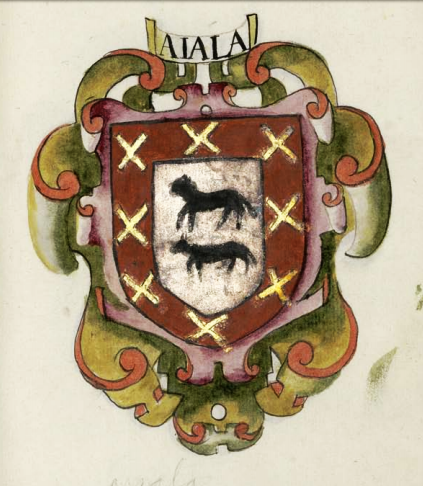 coat of arms belonging to the house Ayala